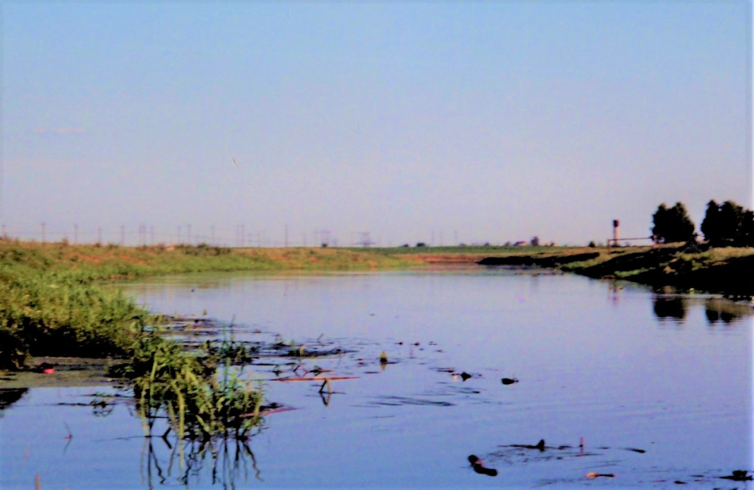 Aresa river near Lyuban, 2006.